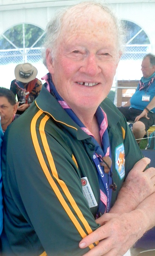 Michael Baden-Powell at the 2015 World Scout Jamboree, Monday, July 27, 2015